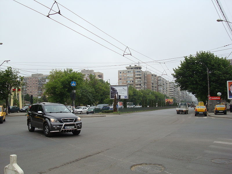 Boulevard Iuliu Maniu, Bucharest, Romania